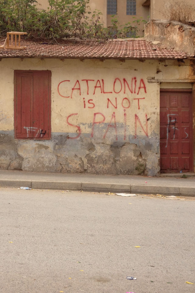 Independantiste tags in Catalonia